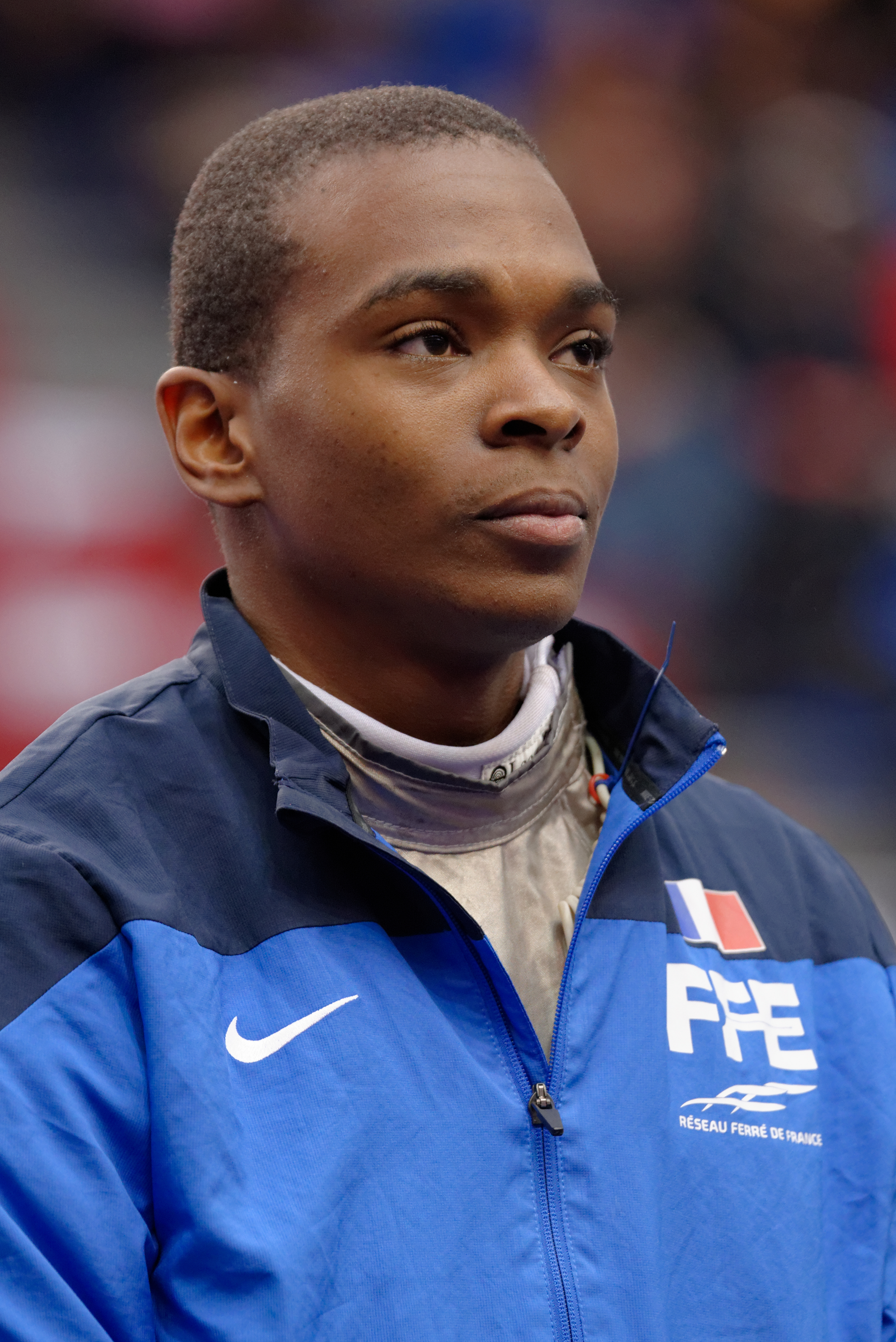 France's Enzo Lefort at the individual event of the 2015 Challenge International de Paris, a men's foil World Cup competition.